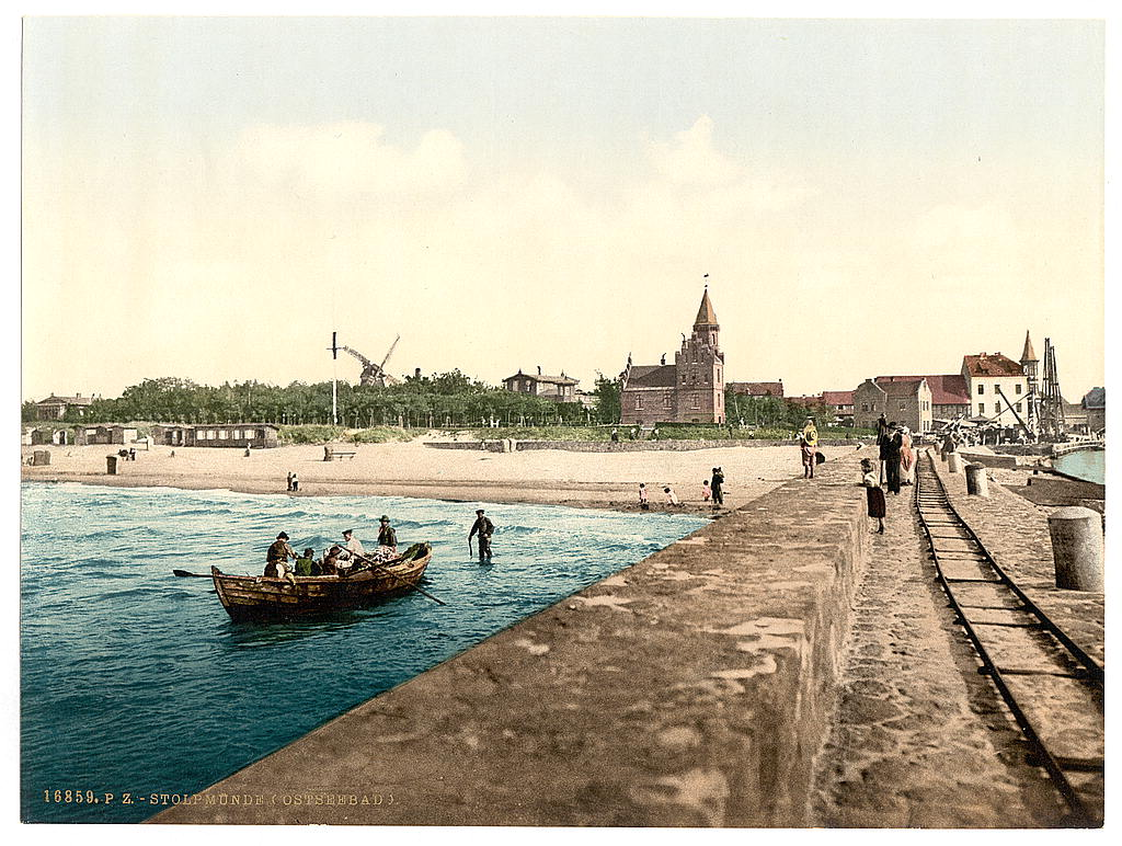 Ustka on old postcard.